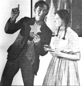 Scene seven of Ferenc Molnar's Liliom: Liliom Joseph Schildkraut tries to get Louise (Evelyn Chard)